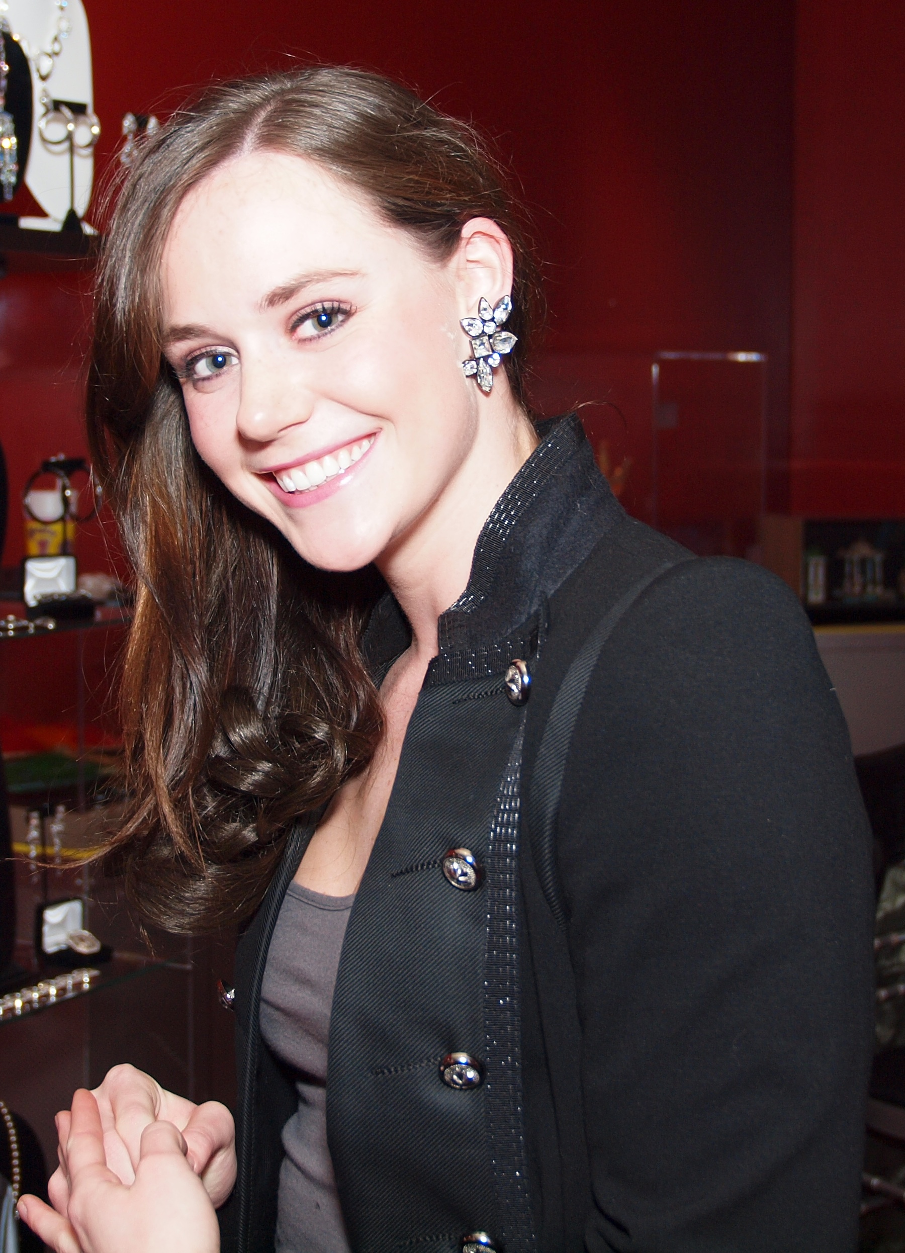 Tessa Virtue at the 2010 Gemini Awards